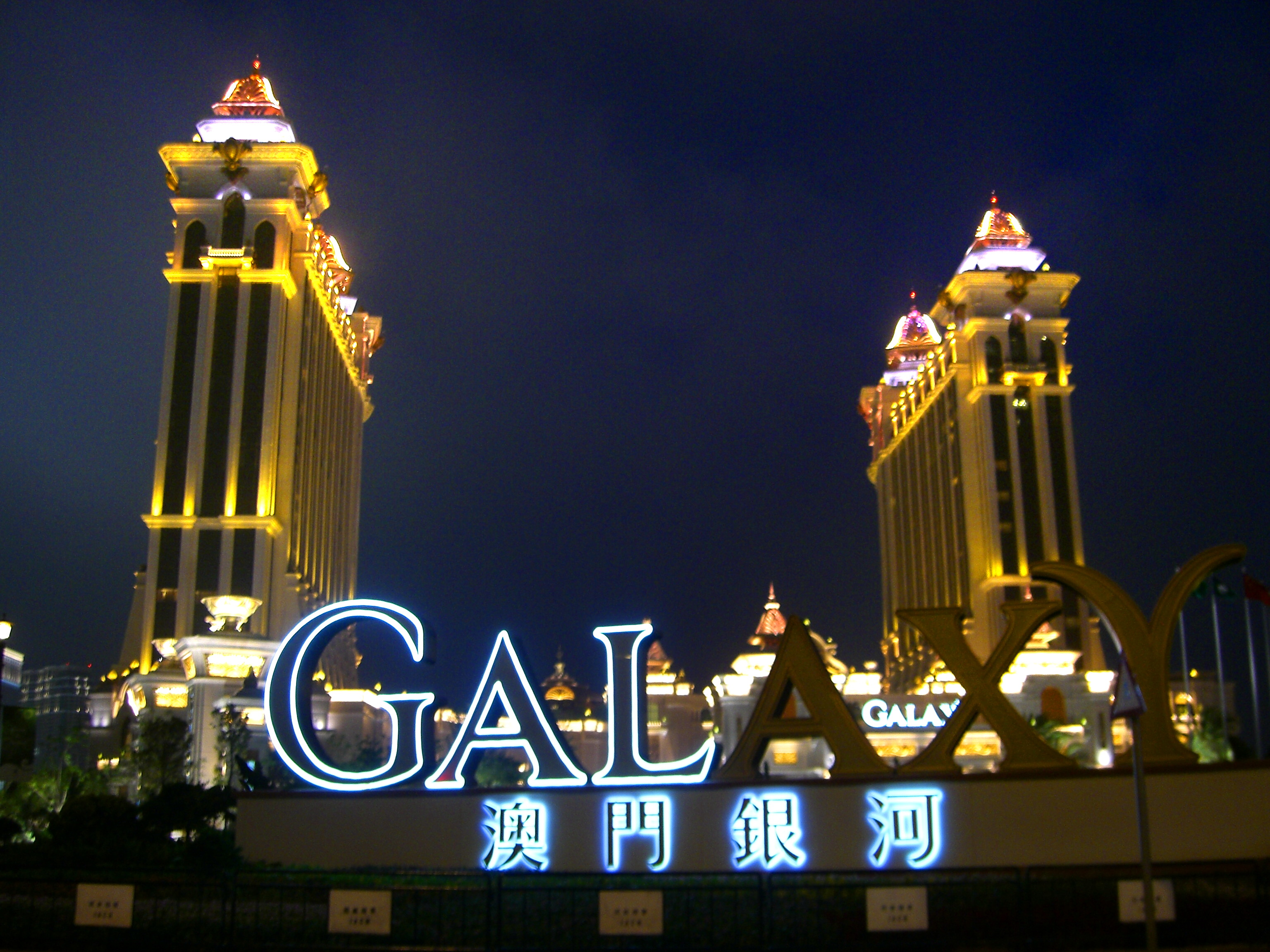 Galaxy Macau